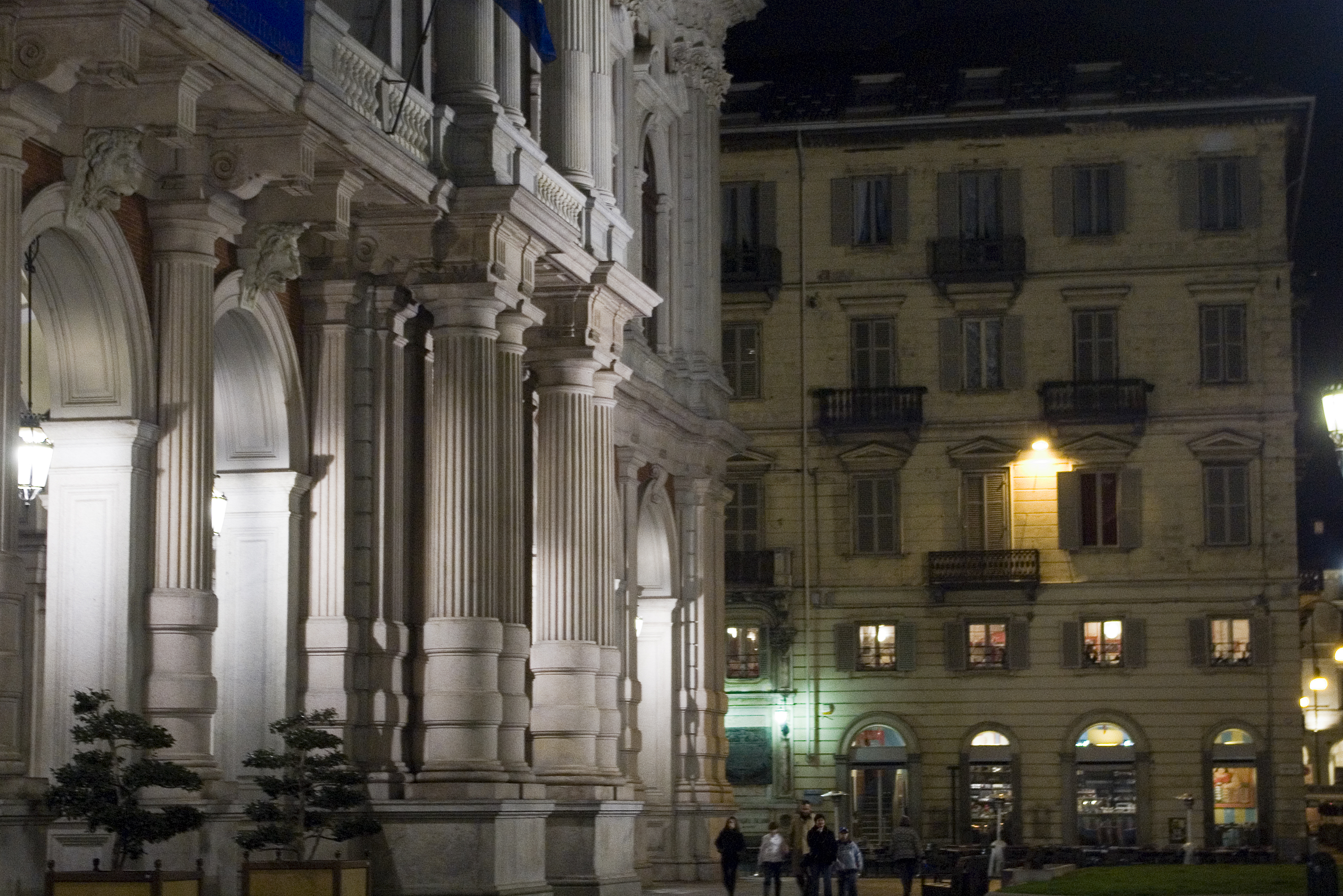 The house Nietzsche stayed in while in Turin (background, right), as seen from across Piazza Carlo Alberto, where he is said to have had his breakdown. To the left is the rear façade of the Palazzo Carignano.